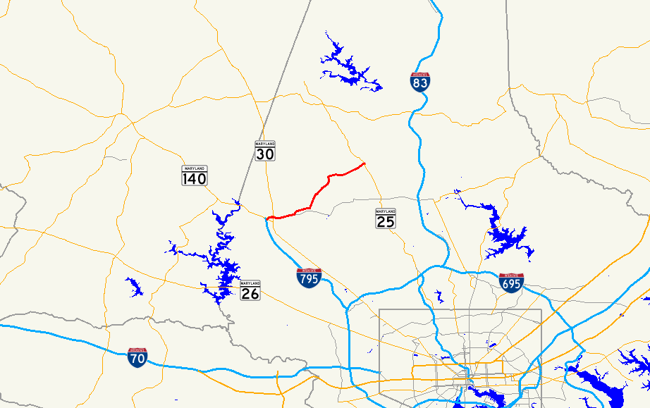 Map of Maryland Route 128